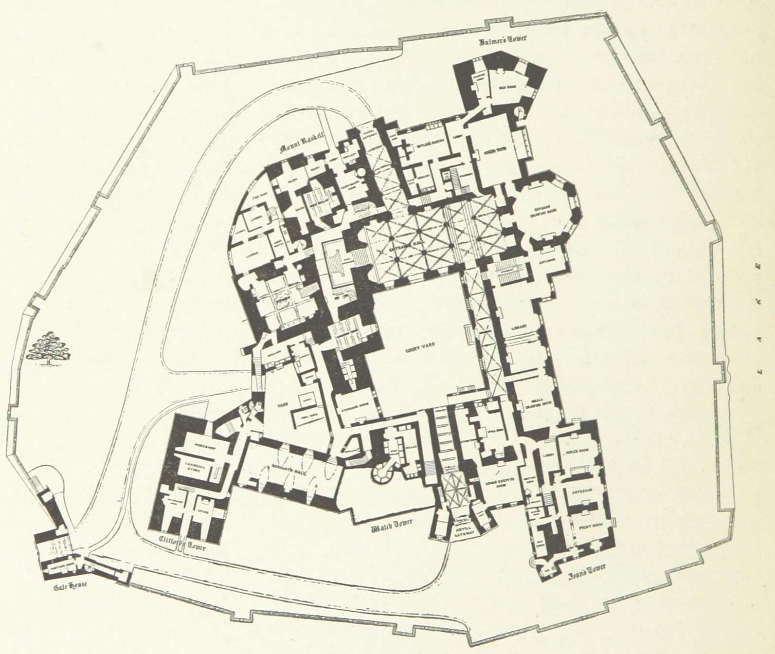 Image taken from: Title: "The Castles of England: their story and structure ... With ... illustrations and ... plans" Author: MACKENZIE, James Dixon - Sir, Bart Contributor: MACNAIRN, J. Shelfmark: "British Library HMNTS 10369.v.7." Volume: 02 Page: 400 Place of Publishing: London Date of Publishing: 1897 Publisher: W. Heinemann Issuance: monographic Identifier: 002322661 Note: The colours, contrast and appearance of these illustrations are unlikely to be true to life. They are derived from scanned images that have been enhanced for machine interpretation and have been altered from their originals. If you wish to purchase a high quality copy of the page that this image is drawn from, please order it here. Please note that you will need to enter details from the above list - such as the shelfmark, the page, the book's volume and so on - when filling out your order. Explore: Find this item in the British Library catalogue, 'Explore'. Open the page in the British Library's itemViewer (page: 400) Download the PDF for this book Click here to see all the illustrations in this book and click here to browse other illustrations published in books in the same year. Please click on the tags shown on the right-hand side for other ways to browse the illustrations.